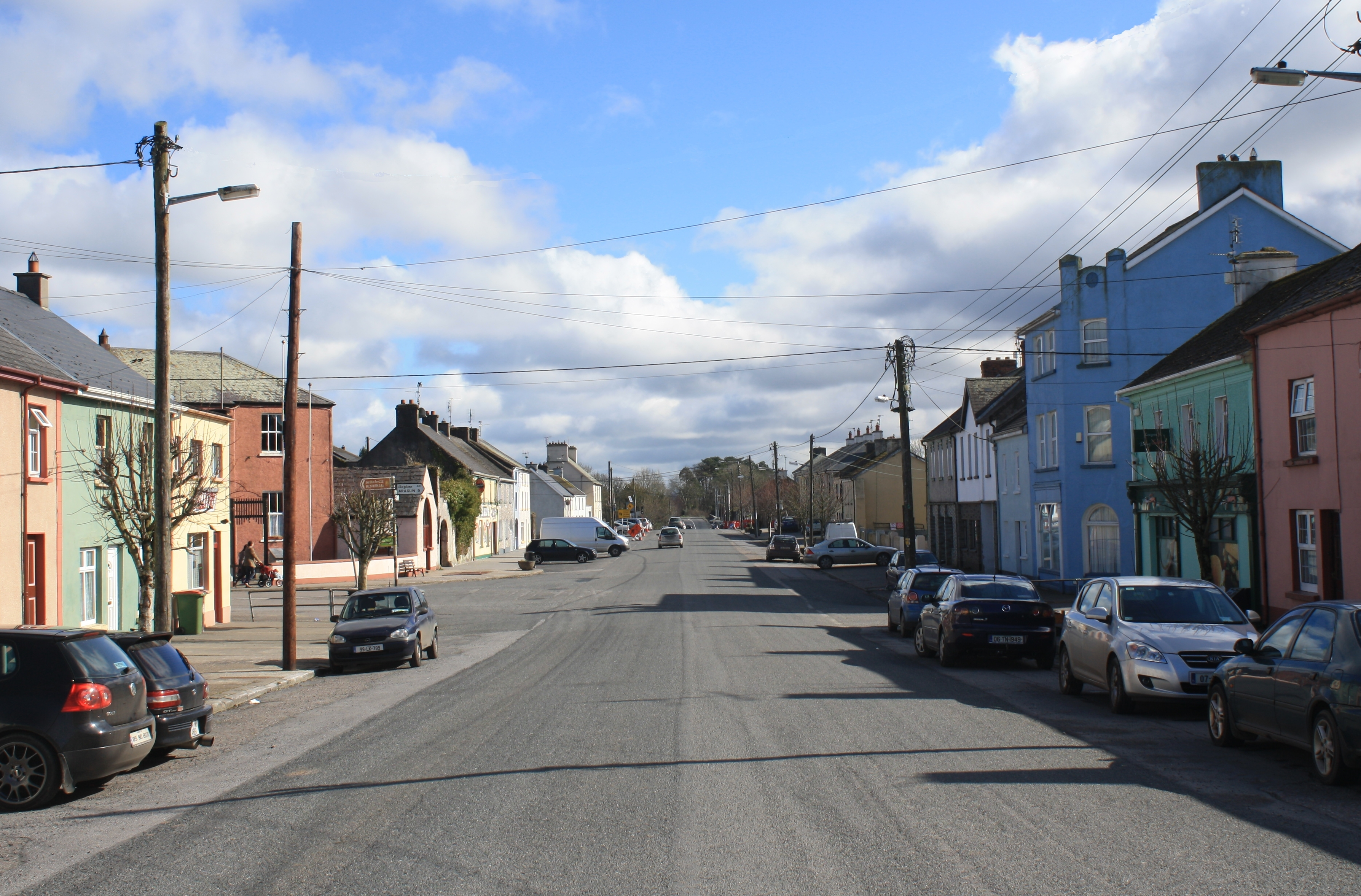 Main Street of Ballyporeen village. Co. Tipperary Ireland.